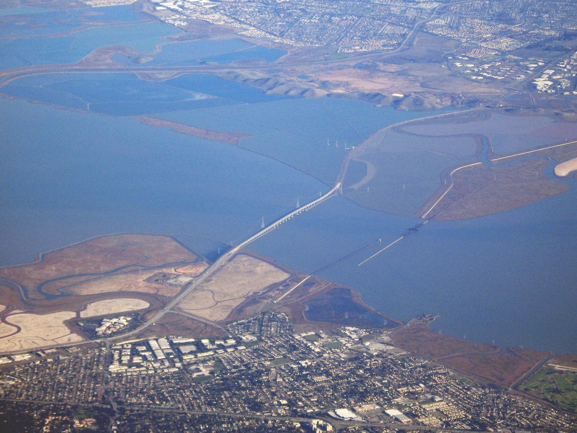 The Dumbarton Bridge in California, taken from an airplane. The shot was taken looking towards the north-east.